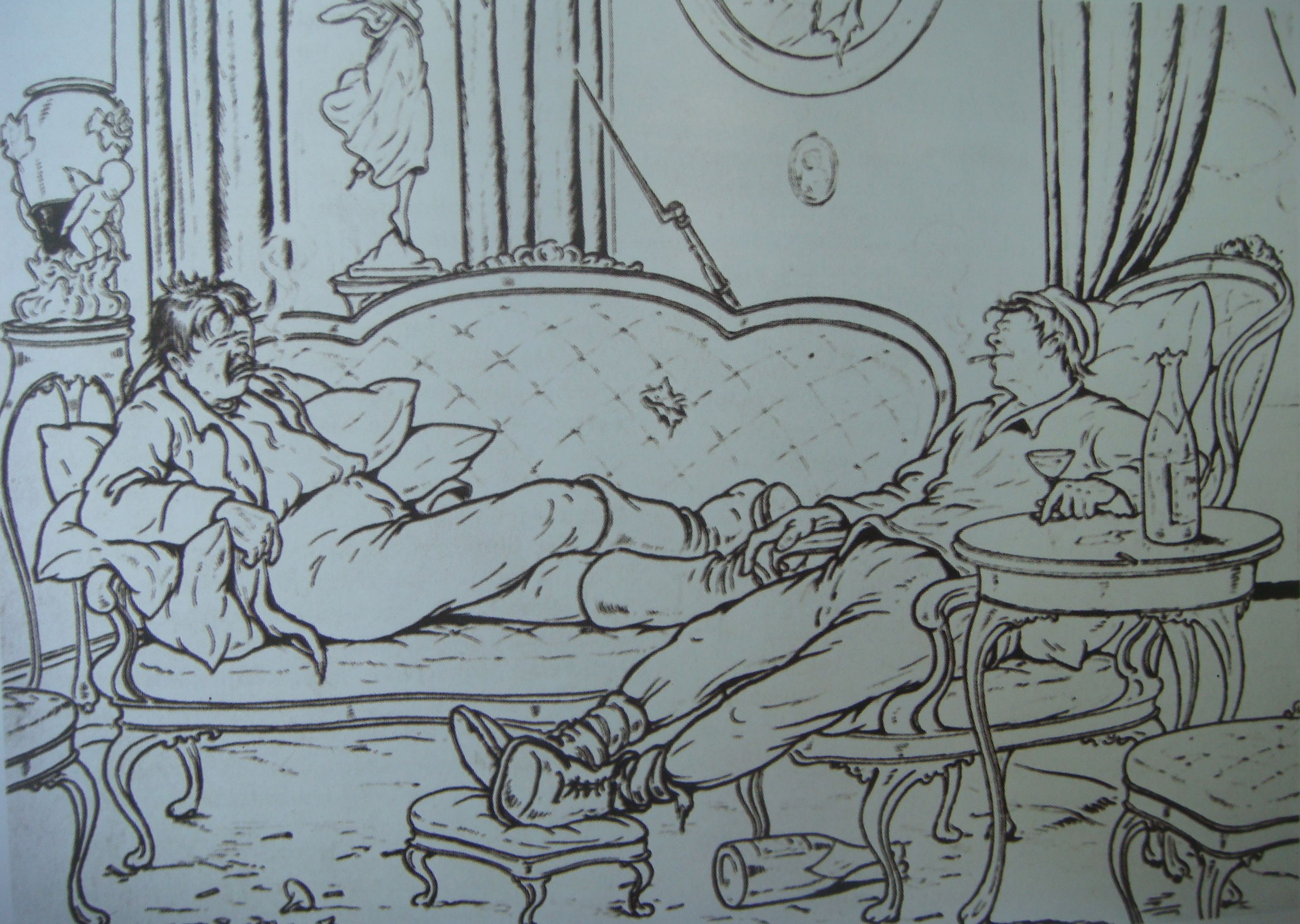 Caricature from Russian mass-media of end 1917 - early 1918 named "Members of red guard at rest in bourgeois flat"